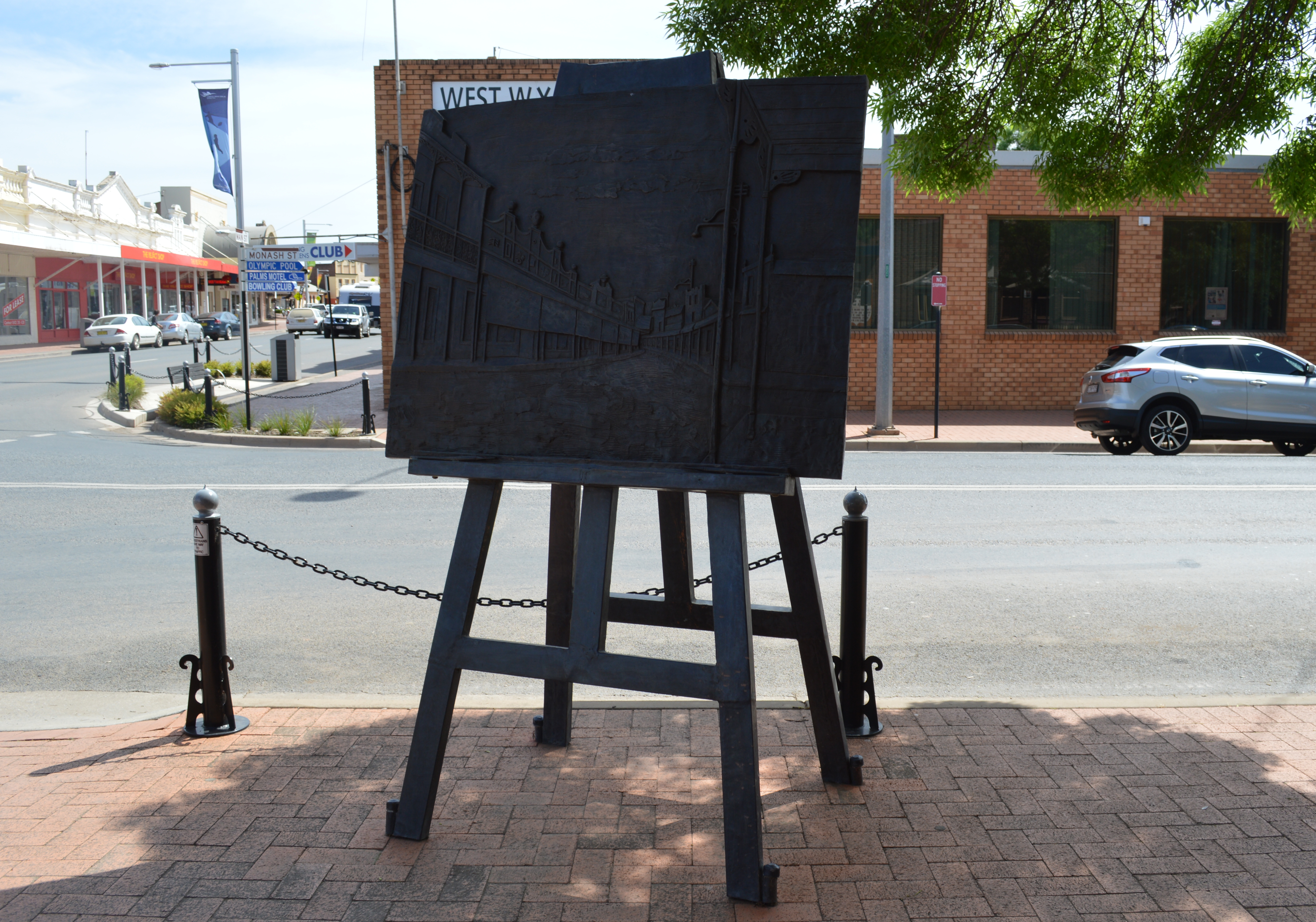 Template:Russell Drysdale monument at West Wyalong, New South Wales